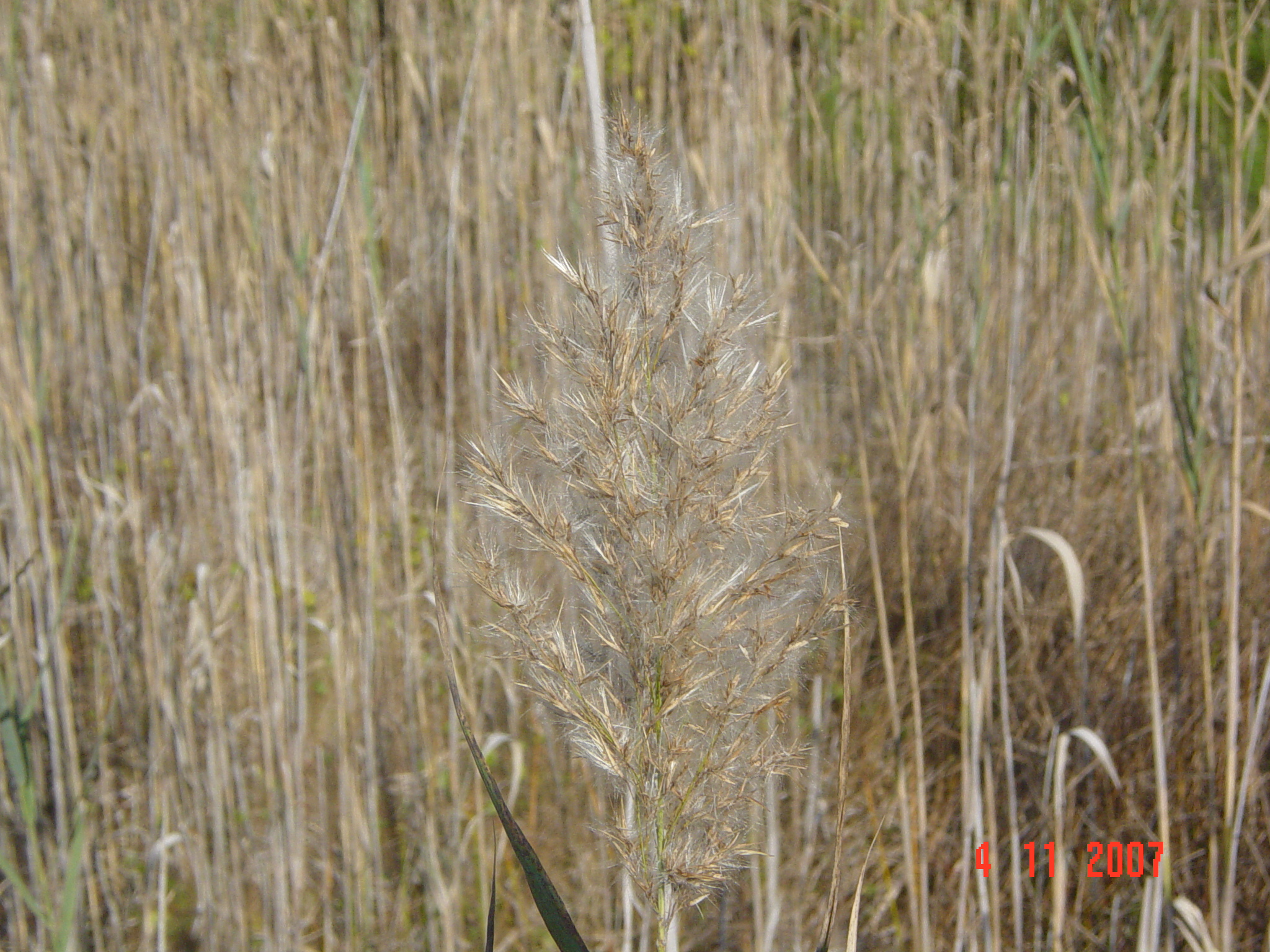 Reed Grass Phragmites Australis, resolution 2048x1536, file size appx 1.3MB, taken at Oceana Pond, Virginia Beach, Virginia, USA